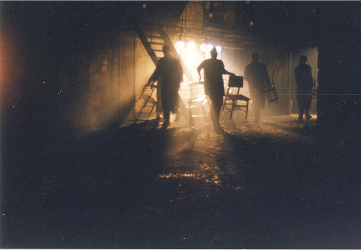 The play "Measure for Measure", directed by Gadi Roll, at the Khan Theater, Iroshlimf; 998